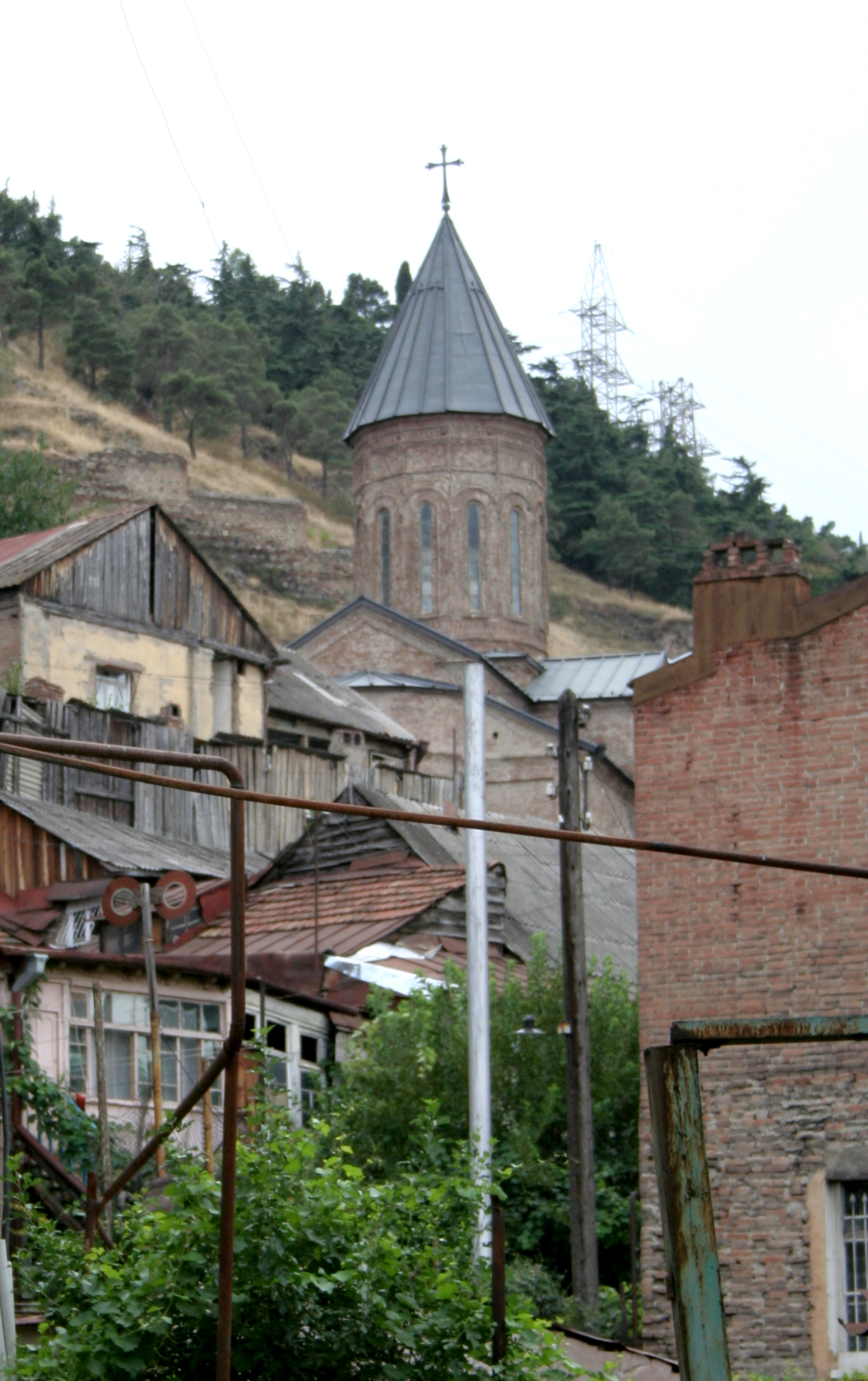 Lower Bethlehemi Church. Beautiful, but run-down.Tbilisi